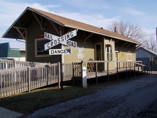 Original Depot of the Pittsburgh, Cincinnati, Chicago and St. Louis Railroad